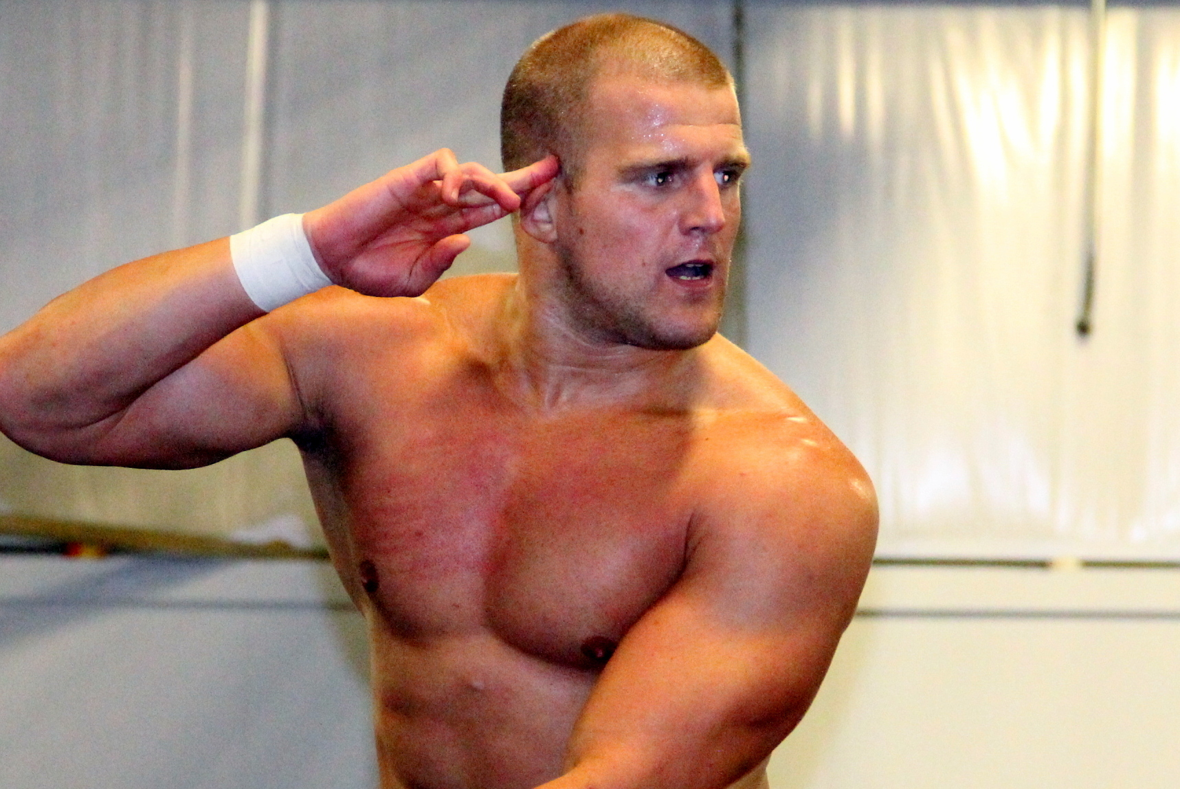 Mike Mondo in August 2013 at an NEFW show in Chicopee, MA. Cropped from original.